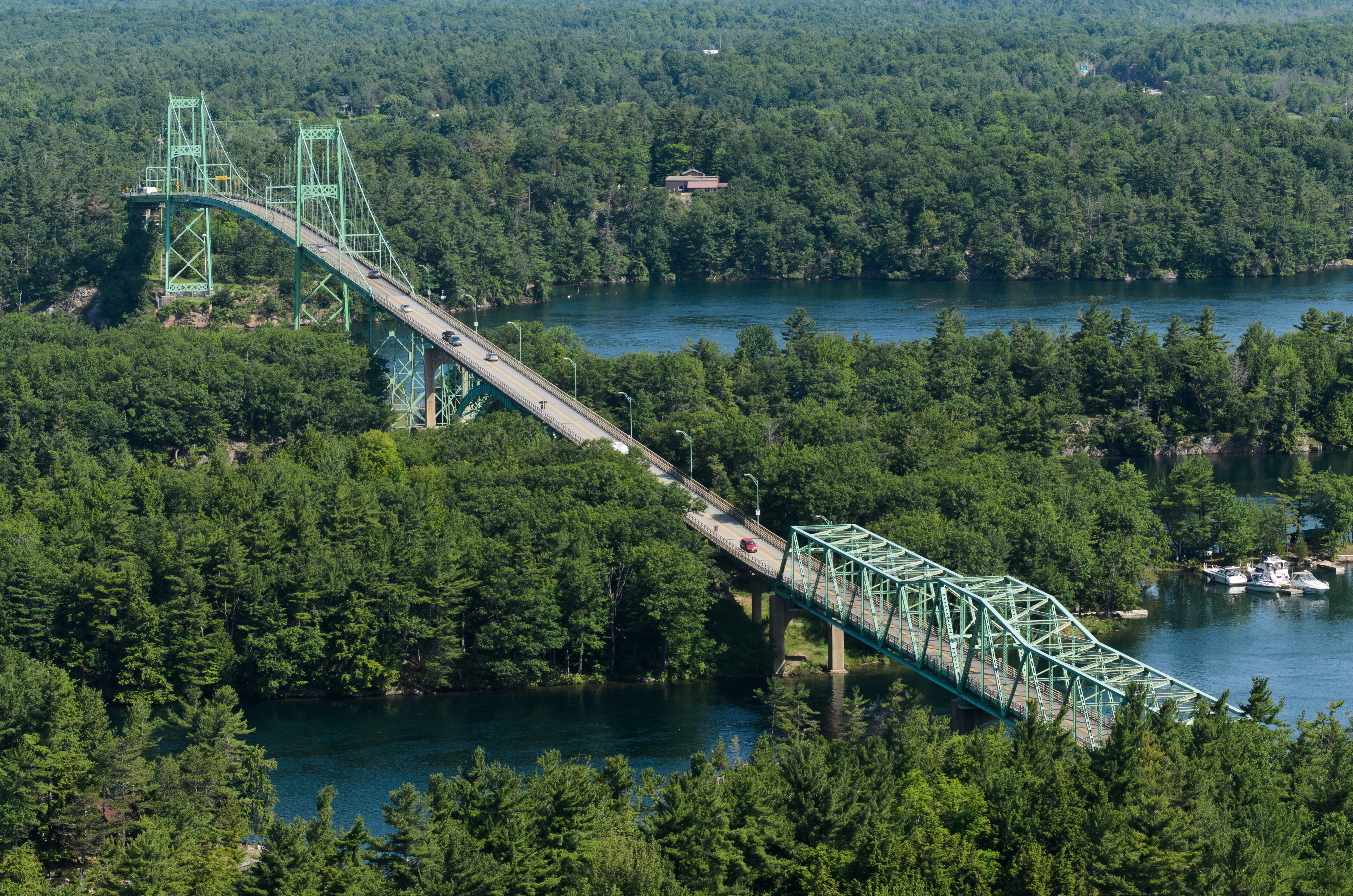 The Thousand Islands Bridge, viewed from the 1000 Islands Tower, Hill Island, Ontario.